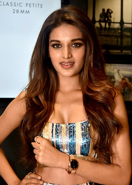 Nidhhi Agerwal at the Daniel Wellingston store launch.